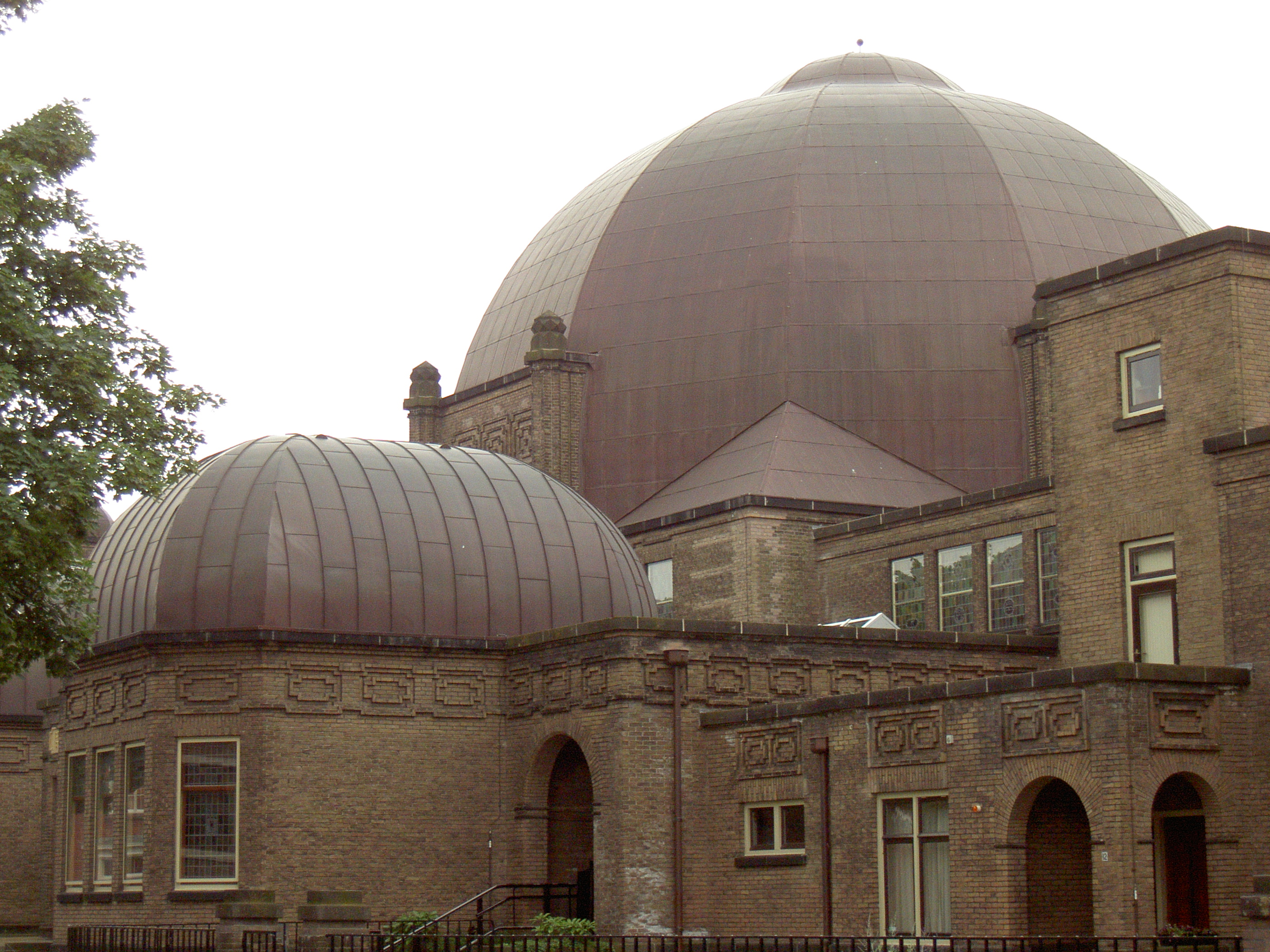 The synagogue of Enschede, designed by De Bazel